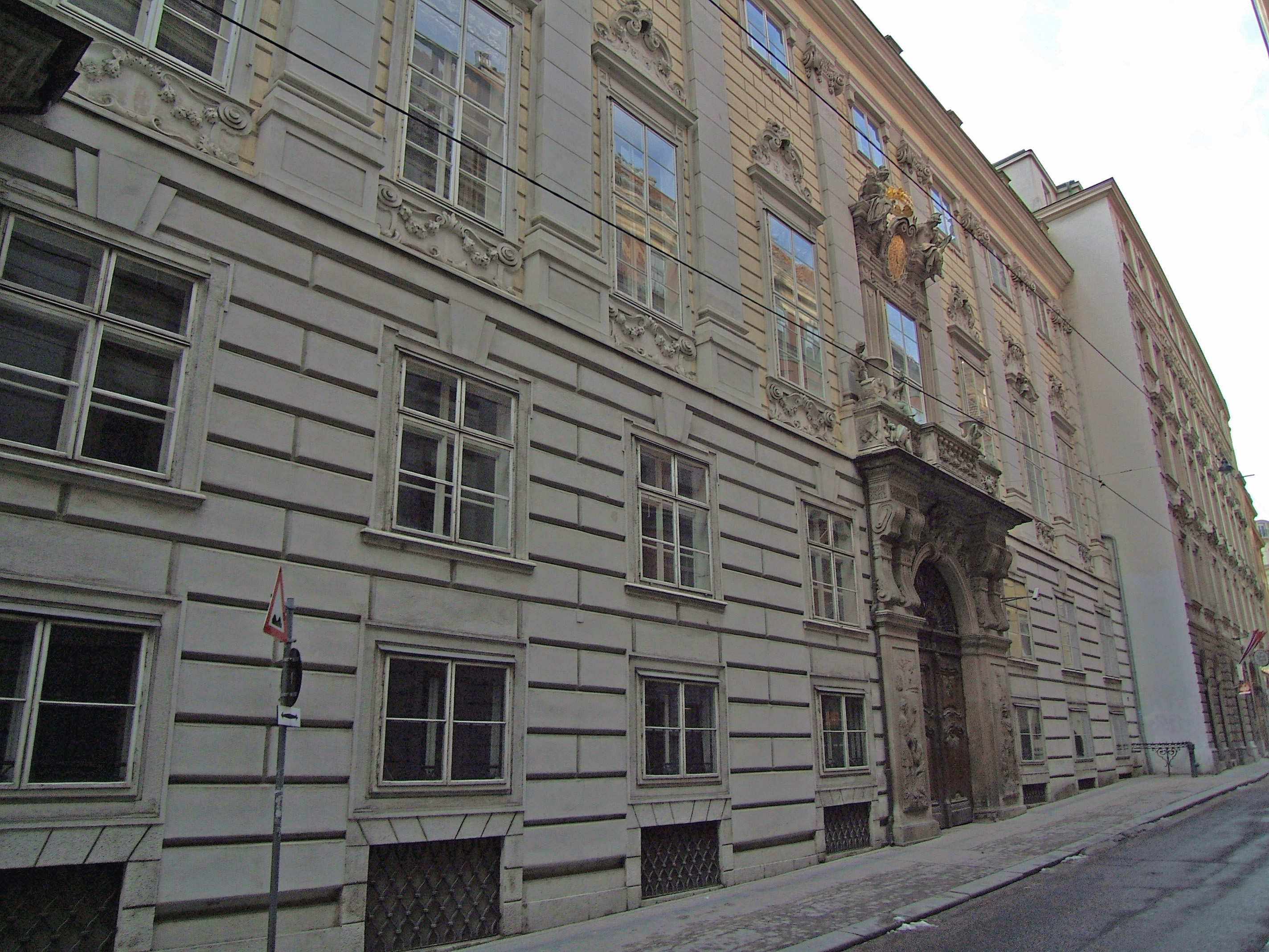 Palais of Prince Eugene of Savoye in Vienna 1st district Himmelpfortgasse 8